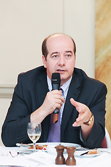 Dumitru Sorin Ducaru, Ambassador, Delegation of Romania to NATO Former Ambassador of Romania to the United States